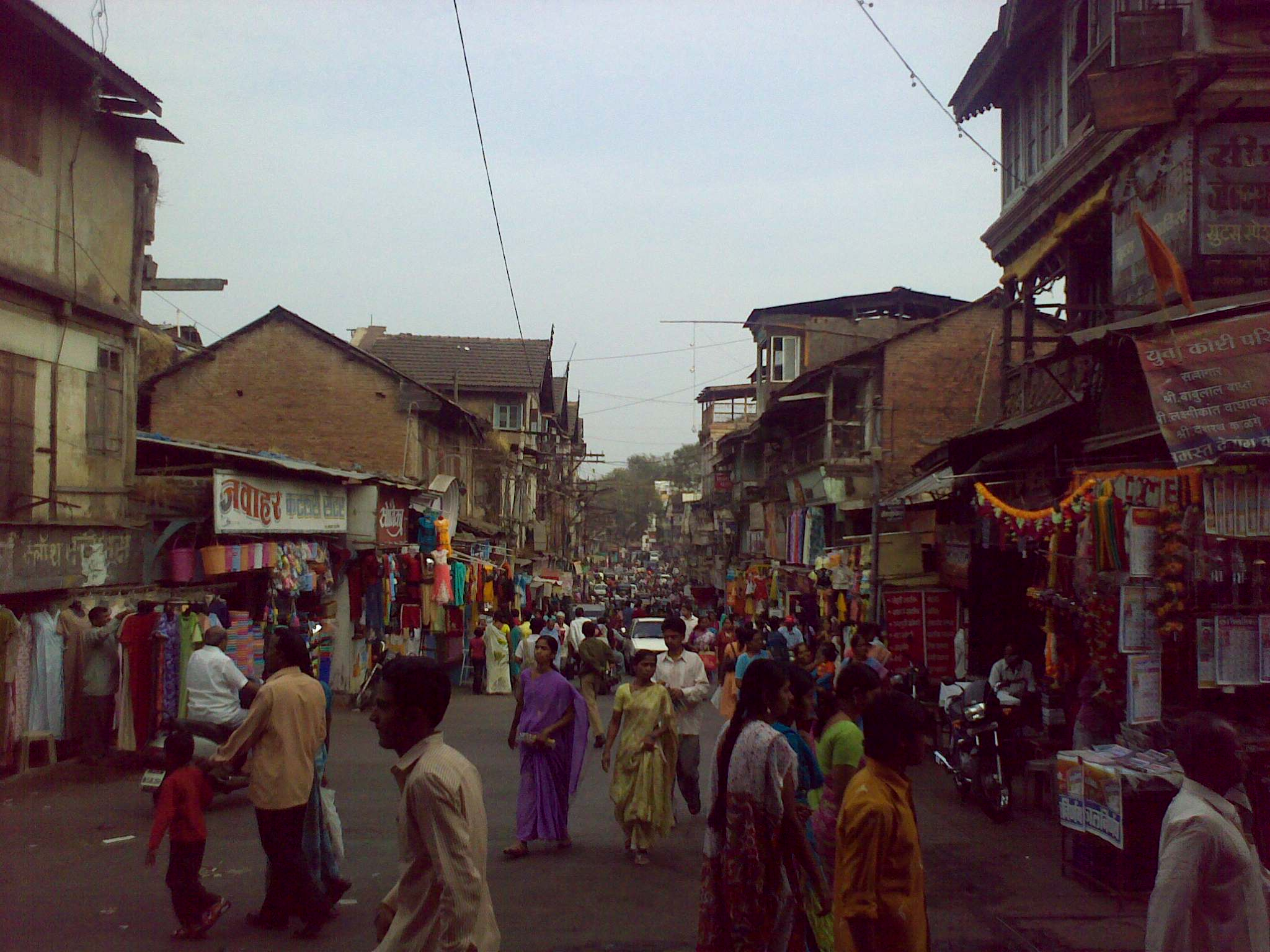 a market street in Old Nashik